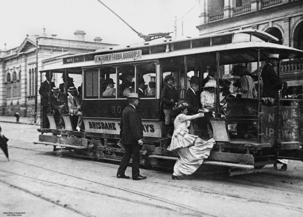 Woman getting on a tram, Brisbane, 1910-1920 Woman wearing a long dress, hat and shoes, getting onto a Brisbane tram. A sign on the No. 30 tram reads, 'New Farm, W'Gabba, Boggo Rd'. A number of people are seated in the tram.